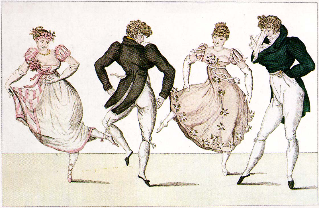 Rather lively dancing of the "La Trénis" figure of the Contredanse, an illustration from Le Bon Genre, Paris, 1805. Both the women have flowers in their low necklines...